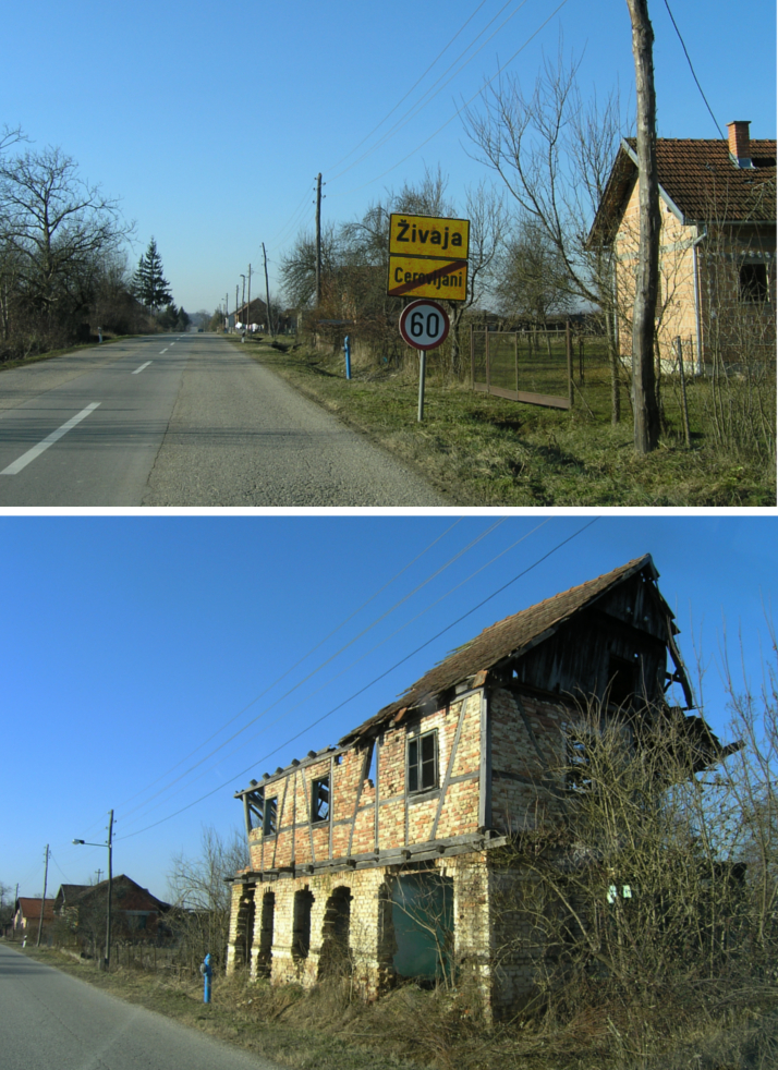 Village Živaja, Sisak-Moslavina county, Croatia. Destroyed Serbian houses in village as remnants of war 1991-1995. Village was part of Republic of Serbian Krajina (with majority Serbian population) till most of Serbians were expelled in 1995's operation Oluja and Bljesak.